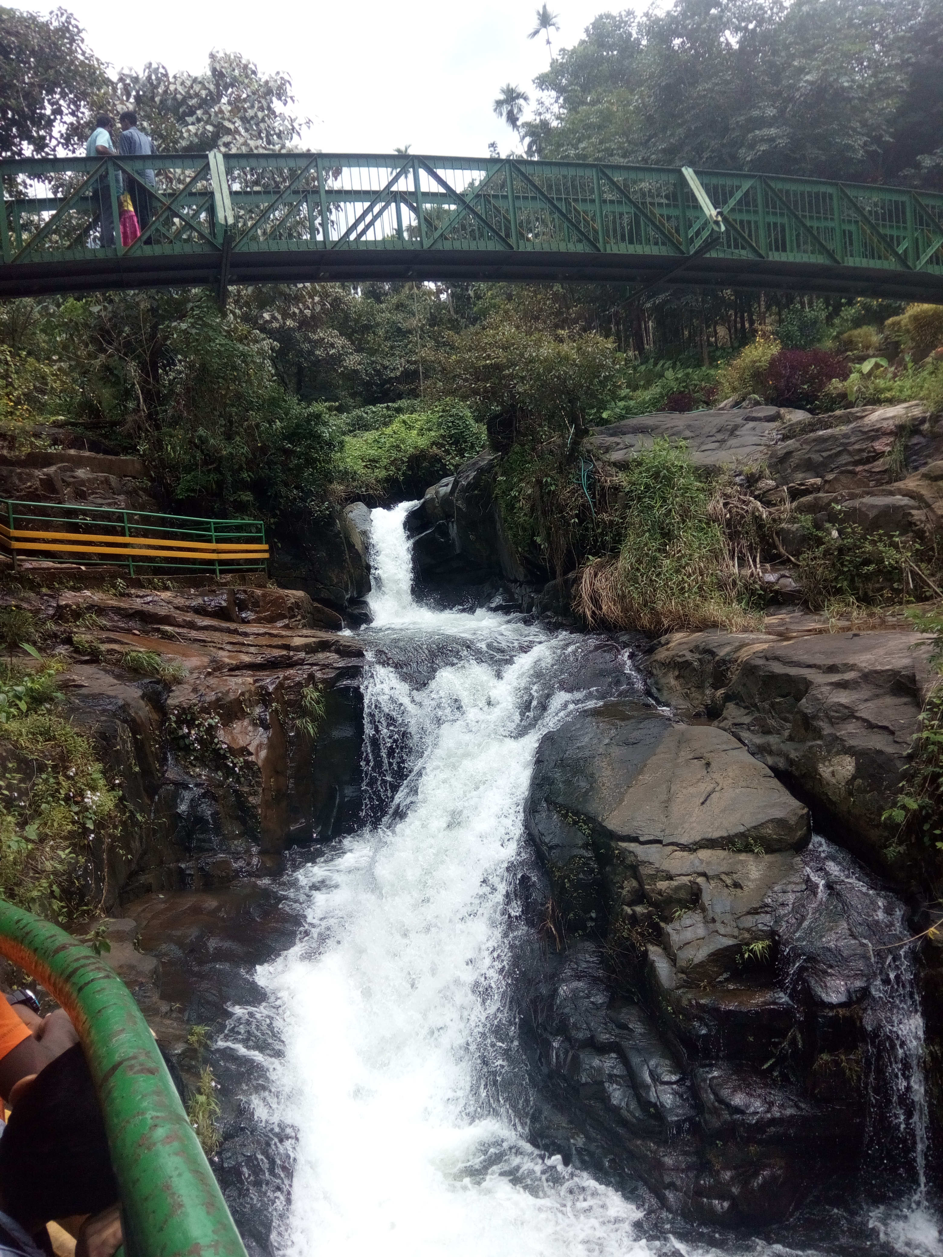 Keralamkundu Falla's is near karvarakundu 5 km apart from the town. Last three km is truck road. It is in the midst of plantation. Too place for week end tour.